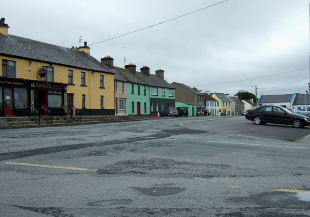 Main Street [R481] Kilfenora